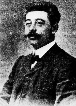 Portrait of the Occitan writer Renat Tulet